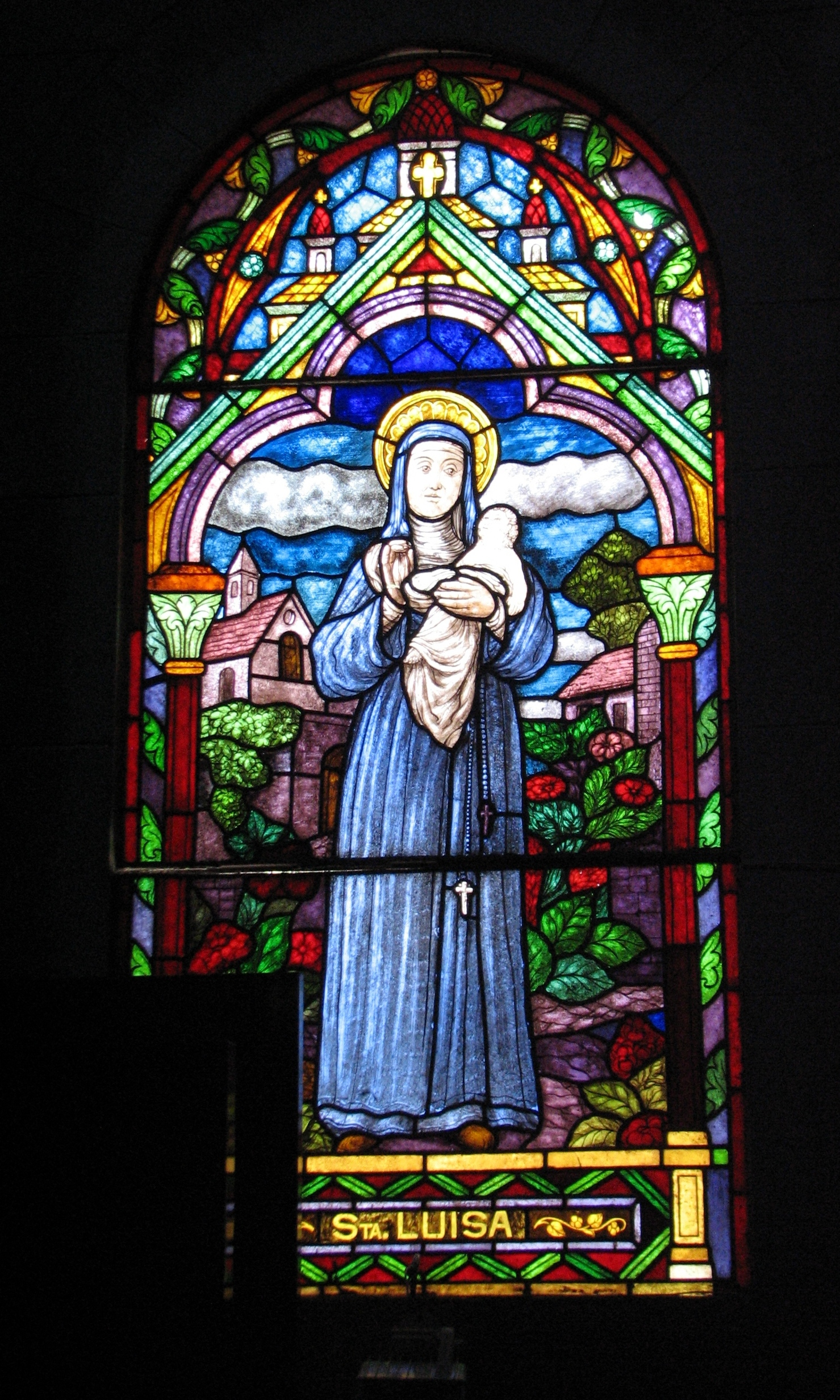 Cathedral Lima Miraflores stained glass window Santa Luisa Miraflores/Lima, Peru.